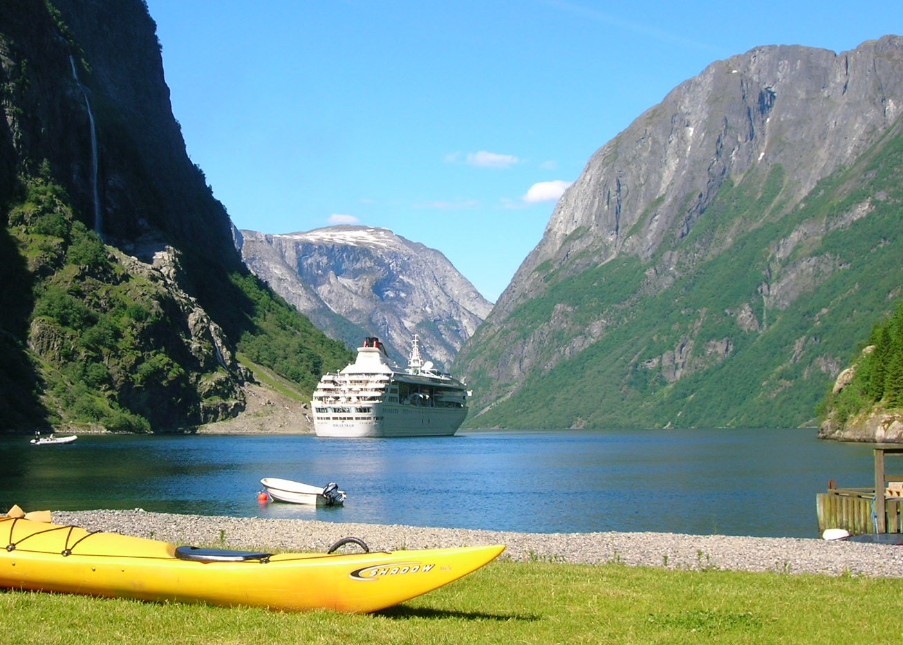 Photo taken by Gunnar Buvik. Gudvangen in Aurland, Norway. Favourite fjord destination for cruise ships (here the MS Braemar).